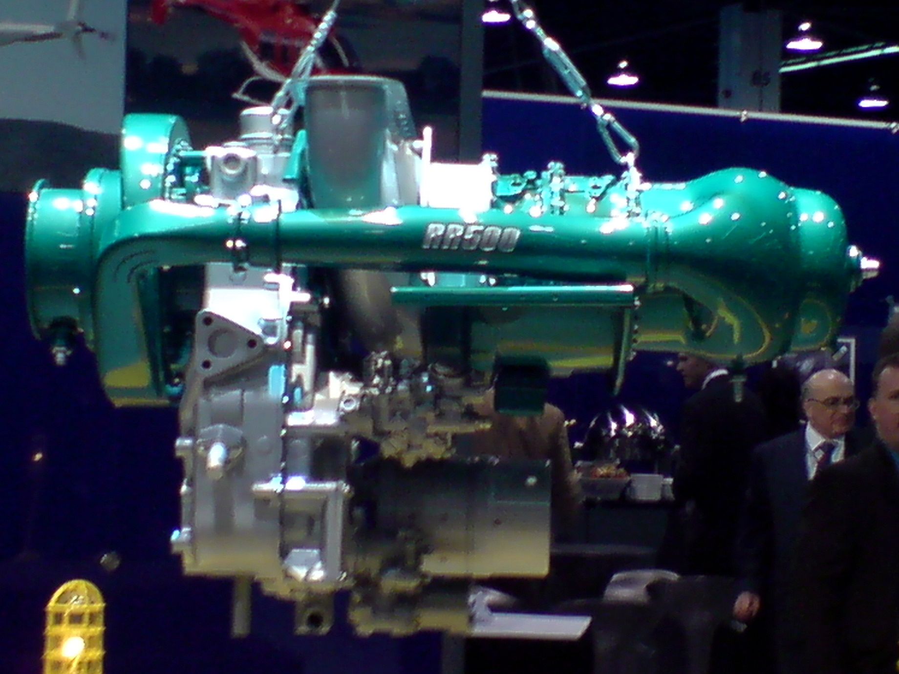 Rolls-Royce RR500 Engine unveiled at HeliExpo 2009. Photo by Alan Barclay.